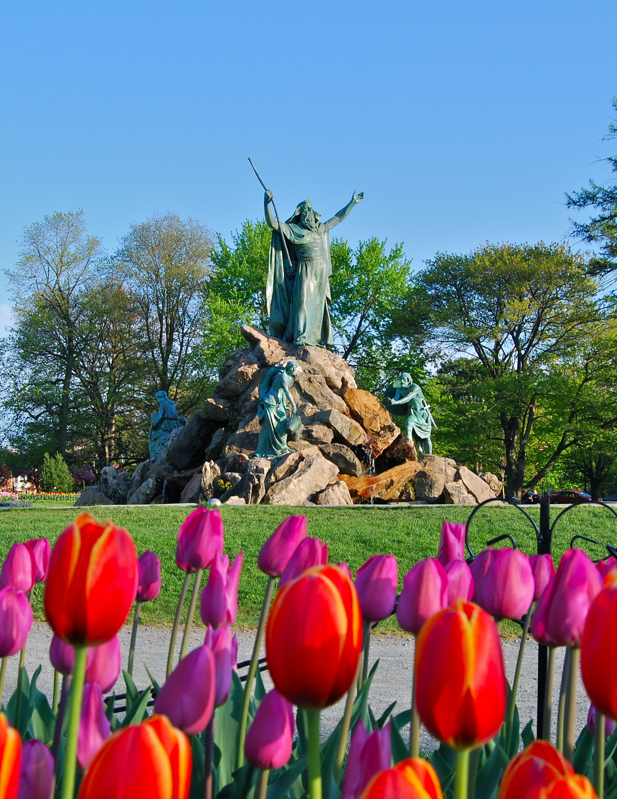 King Fountain at Washington Park in Albany, New York, United States during the local Tulip Festival